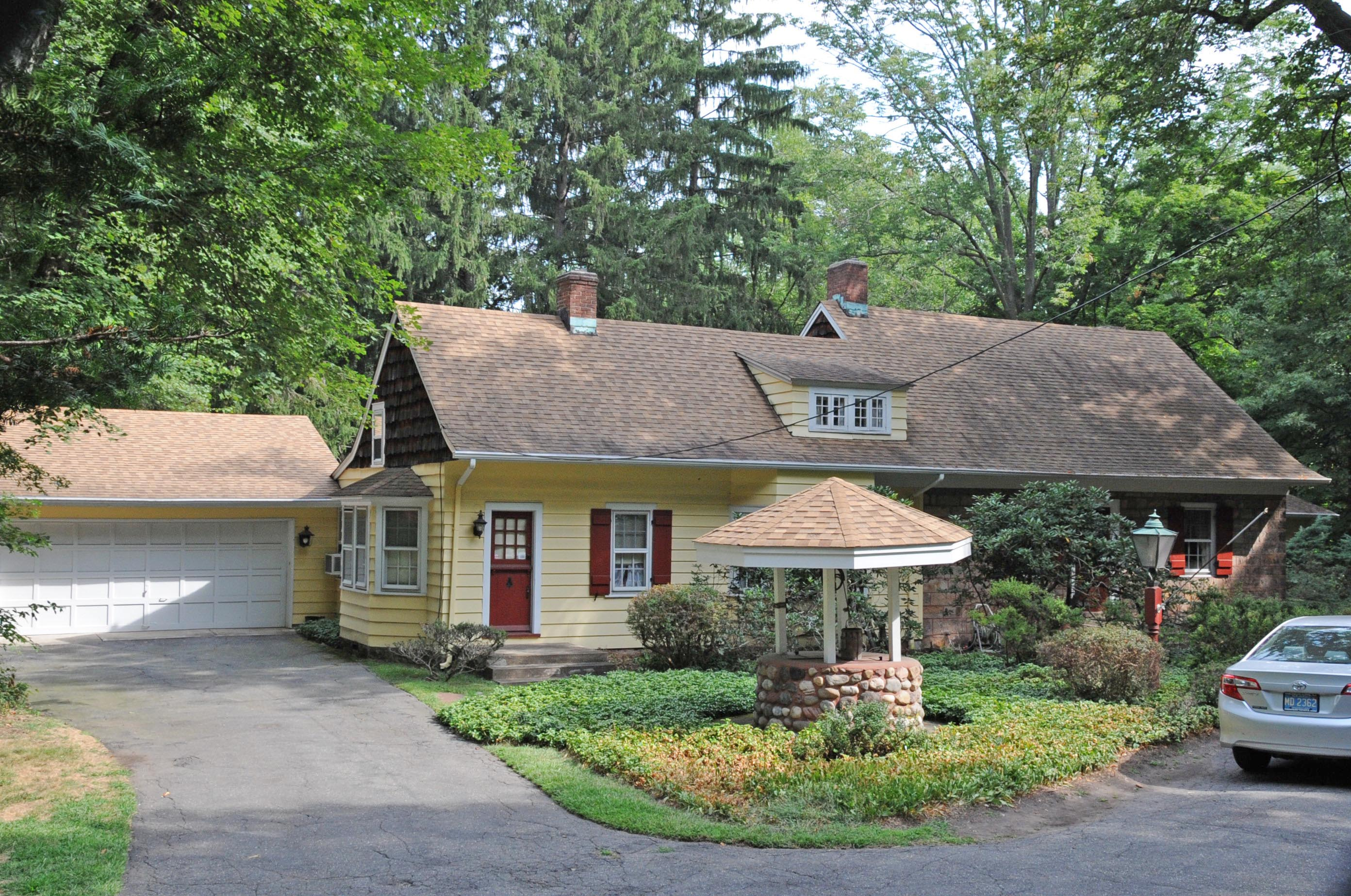 BUILT CIRCA 1745 ON LAND PURCHASED BY BARENT AND RESOLVENT NAGLE; THE ONE WING WAS ADDED MUCH LATER BUT THE LAND STAYED IN THE POSSESSION OF TYE NAGLE FAMILY FOR 5 GENERATIONS.